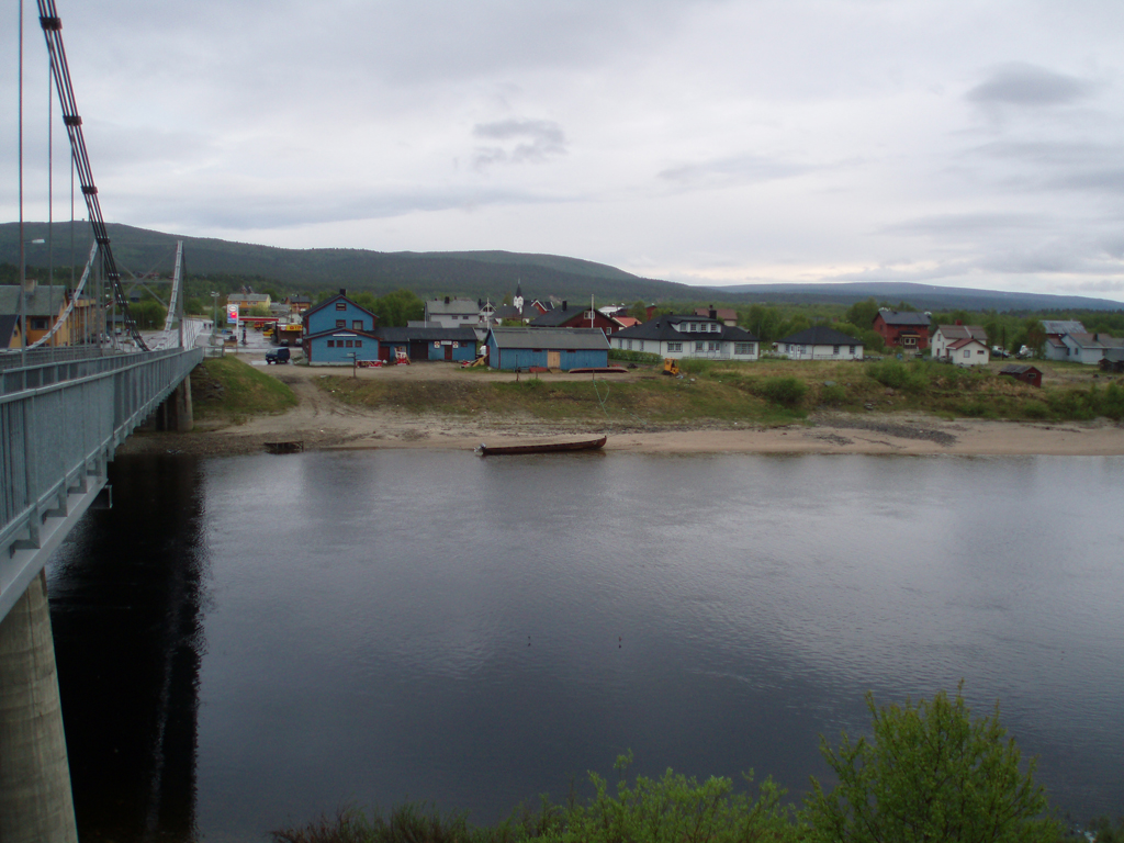 A view of Karasjok village in Norway.